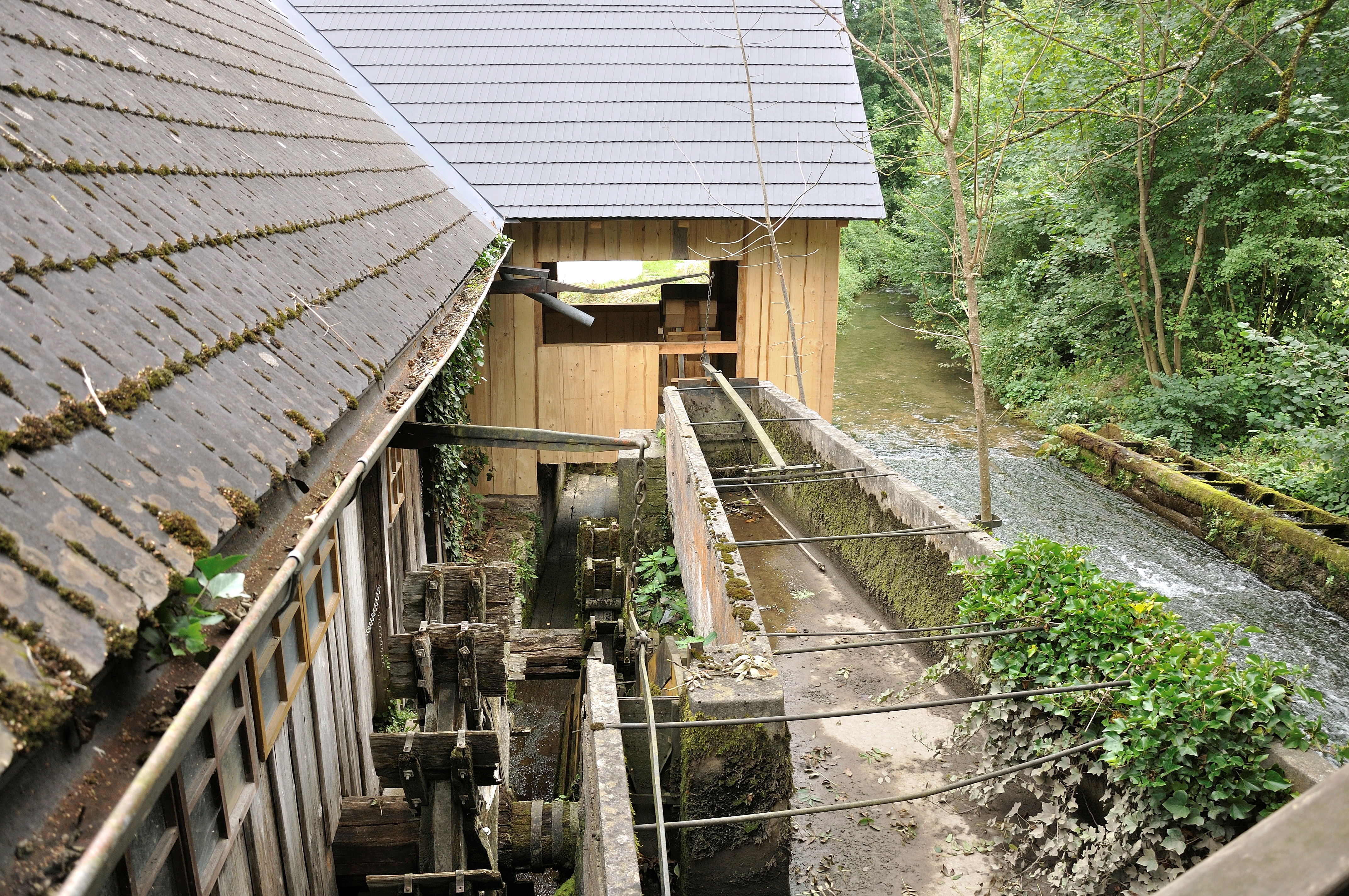 The chutes of the blacksmith´s workshop in Bad Wimsbach Neydharting.